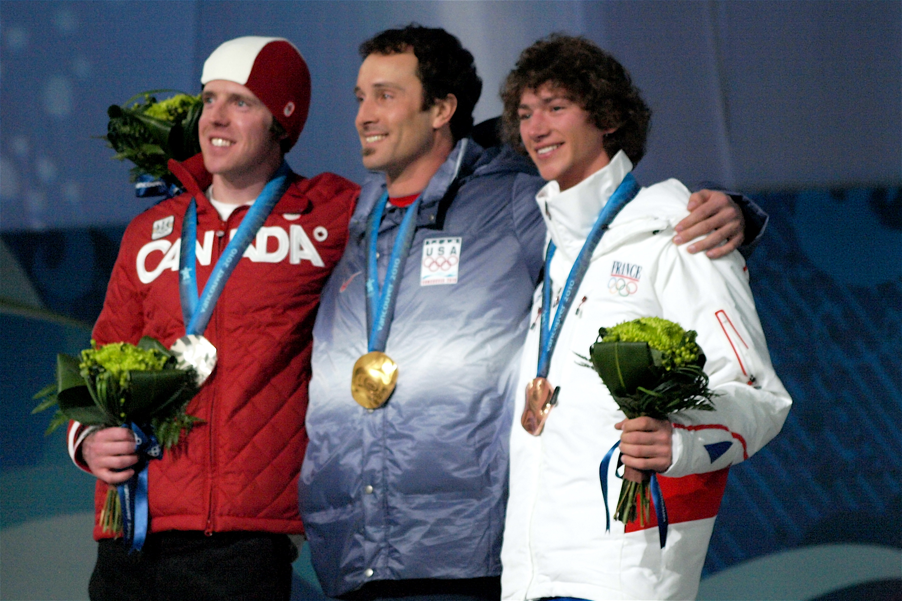 The medalists from the 2010 Winter Olympic men's Snowboard Cross medalists. From left to right: Mike Robertson of Canada (silver), Seth Wescott of the United States (gold), Tony Ramoin of France (bronze)